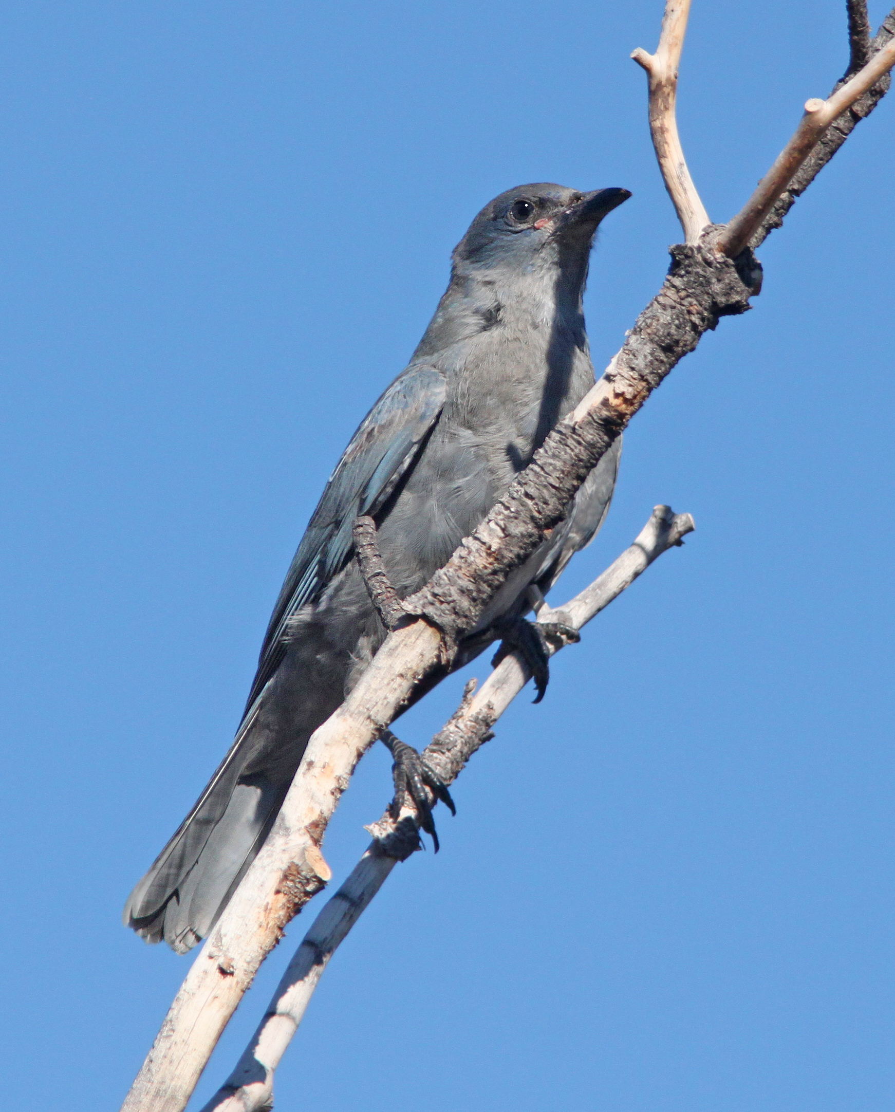 Pinyon Jay Gymnorhinus cyanocephalus, El Morro Nat. Mon., Cibola Co., New Mexico